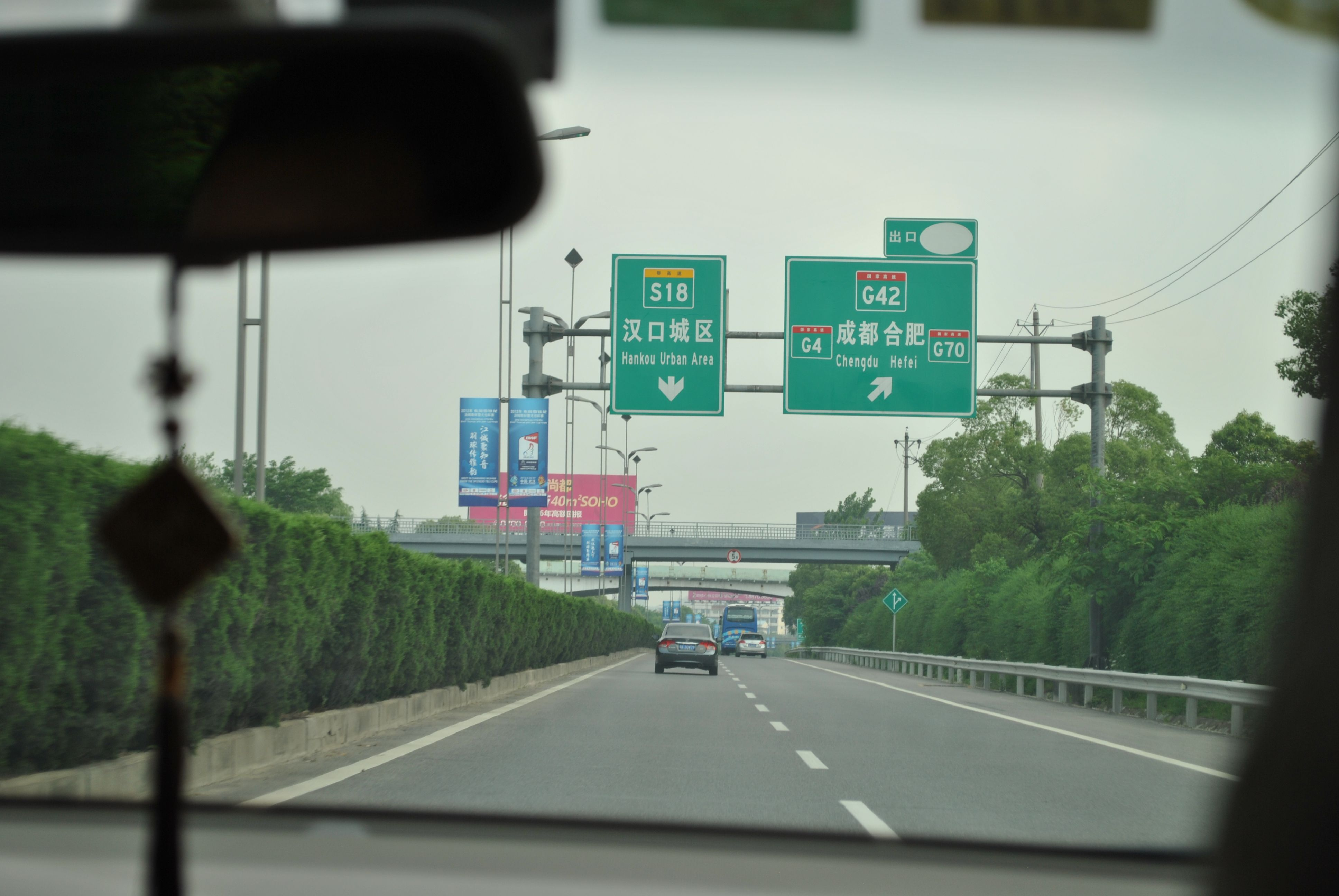 Wuhan Tianhe Airport Expressway